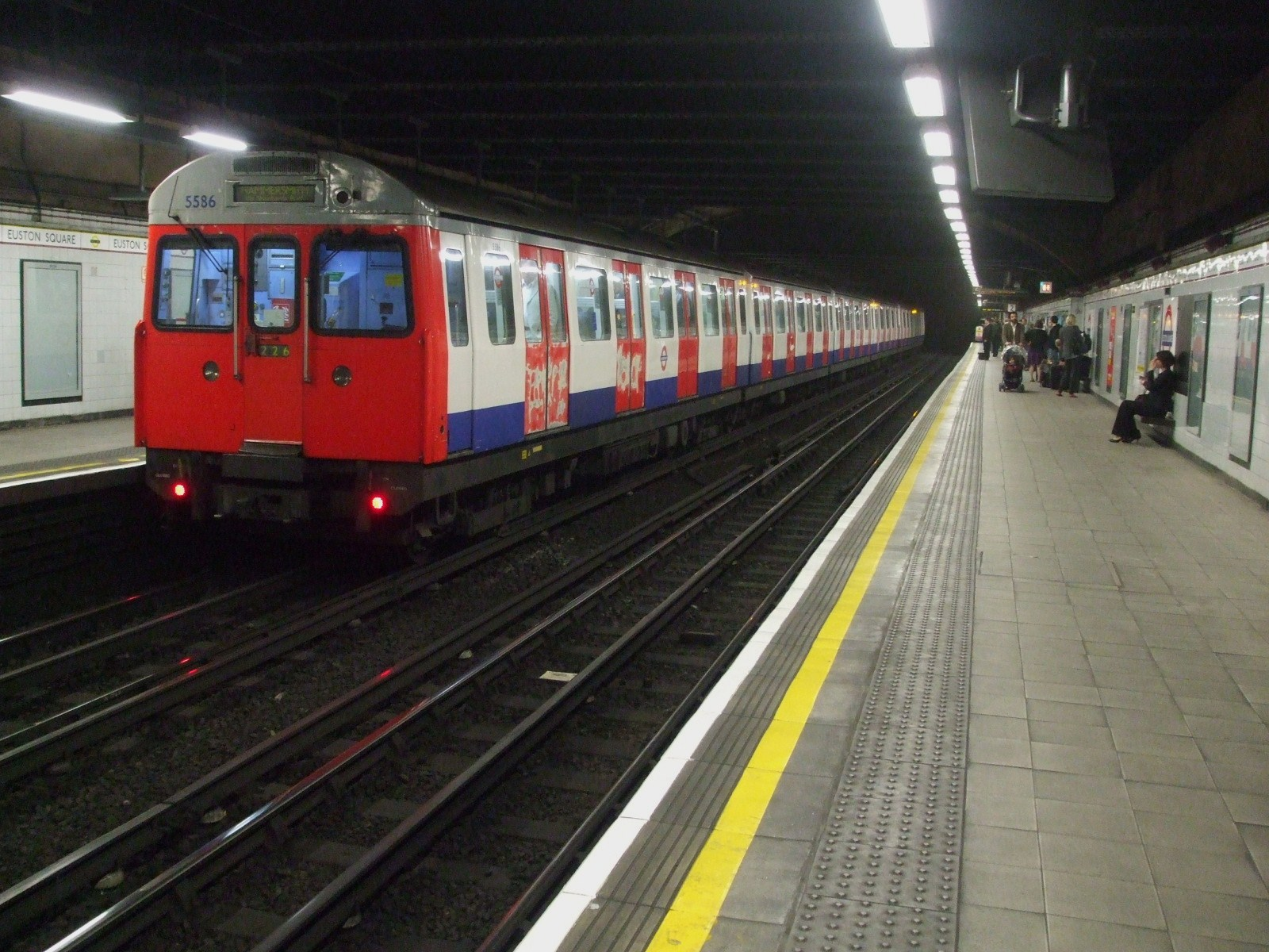 Euston Square tube station platforms looking west, with a C Stock train calling on a westbound Hammersmith & City line service.